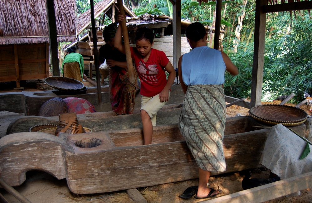 Pounding rice with lesung, a traditional mortar. Sirnarasa, Kasepuhan village near Palabuhanratu, Sukabumi, West Java